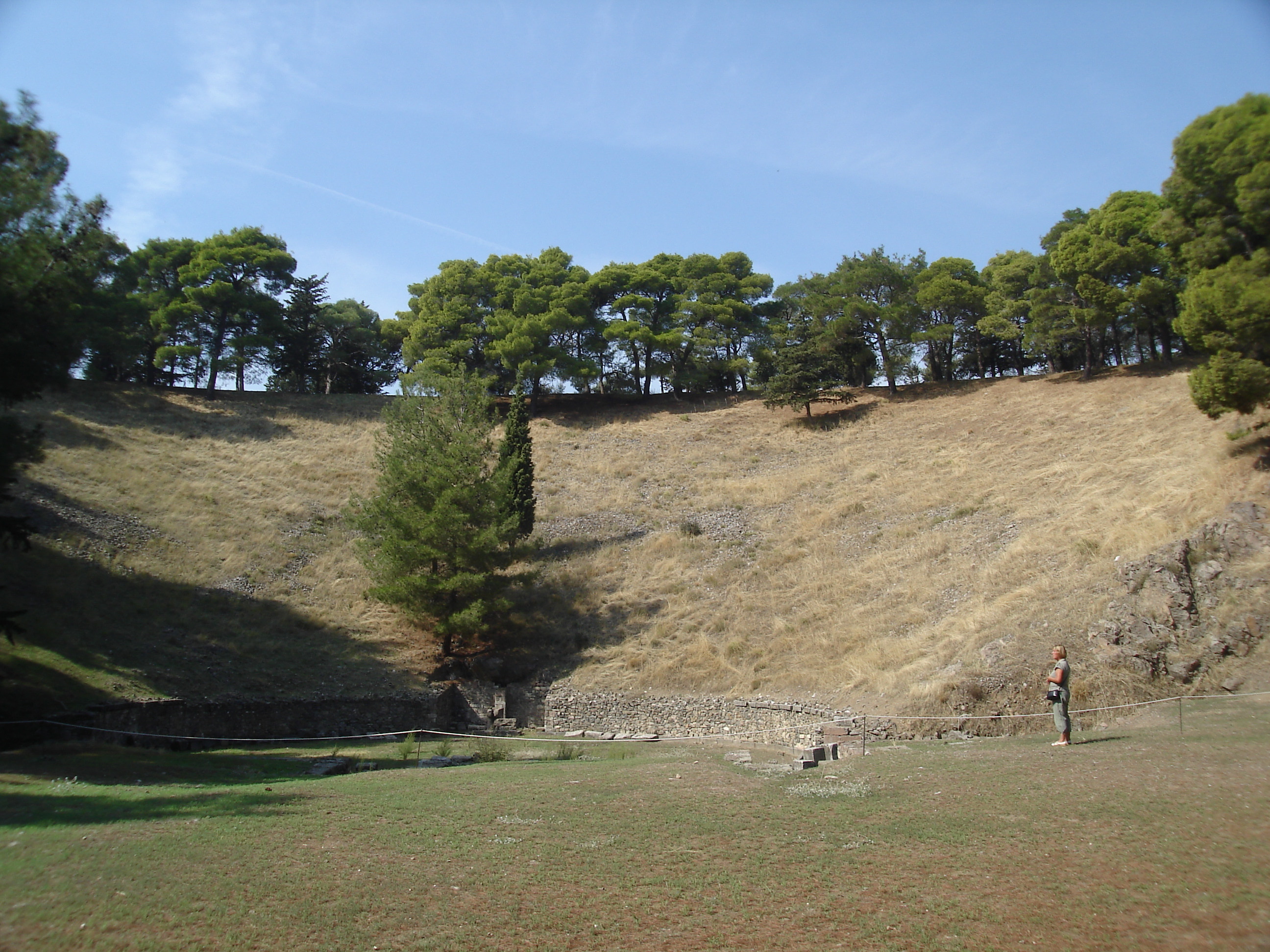 theater review in Mytilene